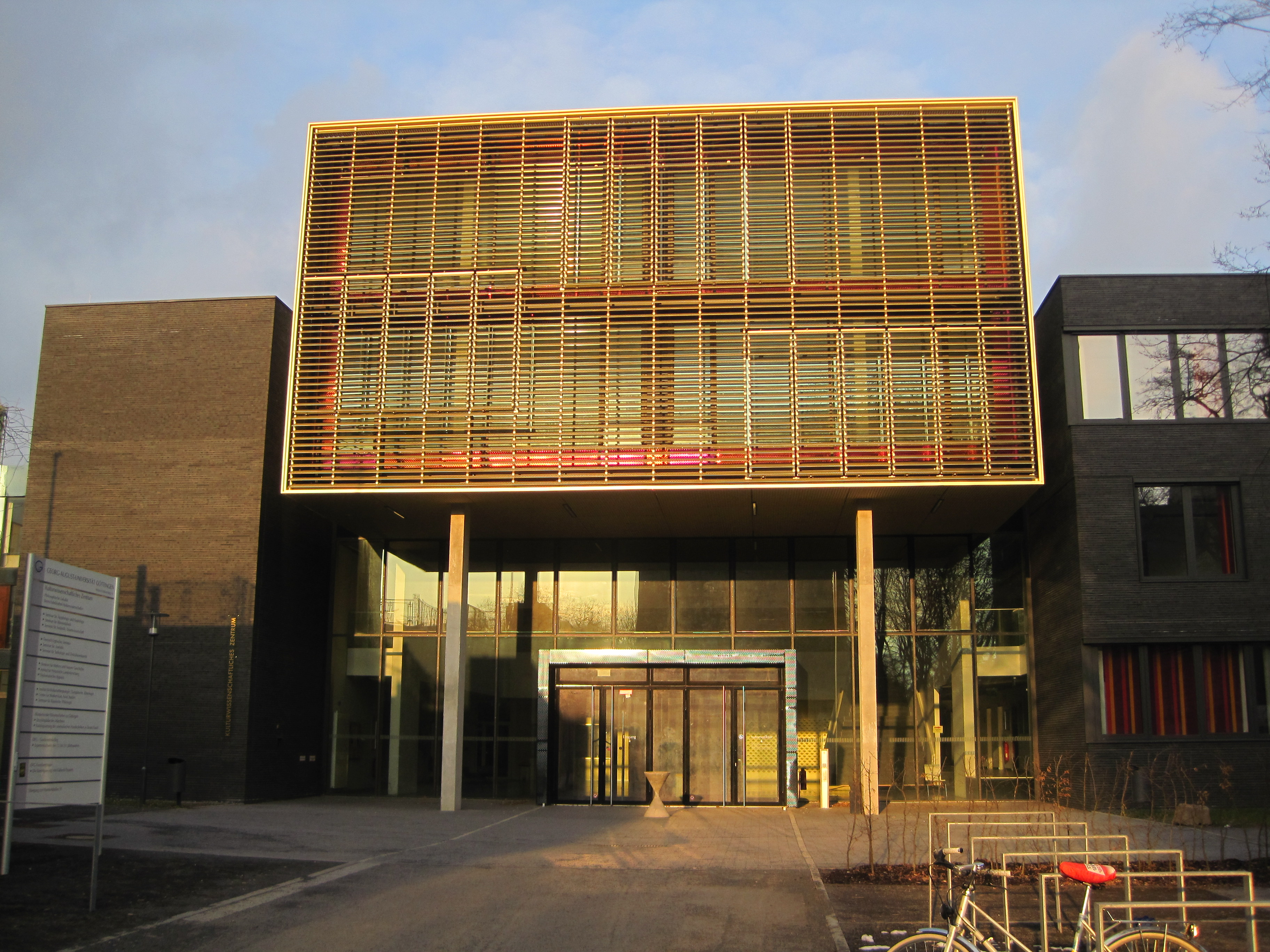 Kulturwissenschaftliches Zentrum (Centre for Cultural Studies) of Georg August University, Göttingen, Germany check usage Address Heinrich-Düker-Weg 14 37073 Göttingen Germany